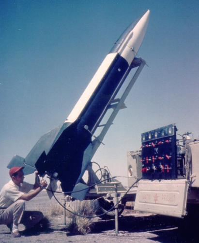 North American RTV-A-3 "NATIV" (North American Test Instrument Vehicle) rocket being prepared for a test launch in 1948.